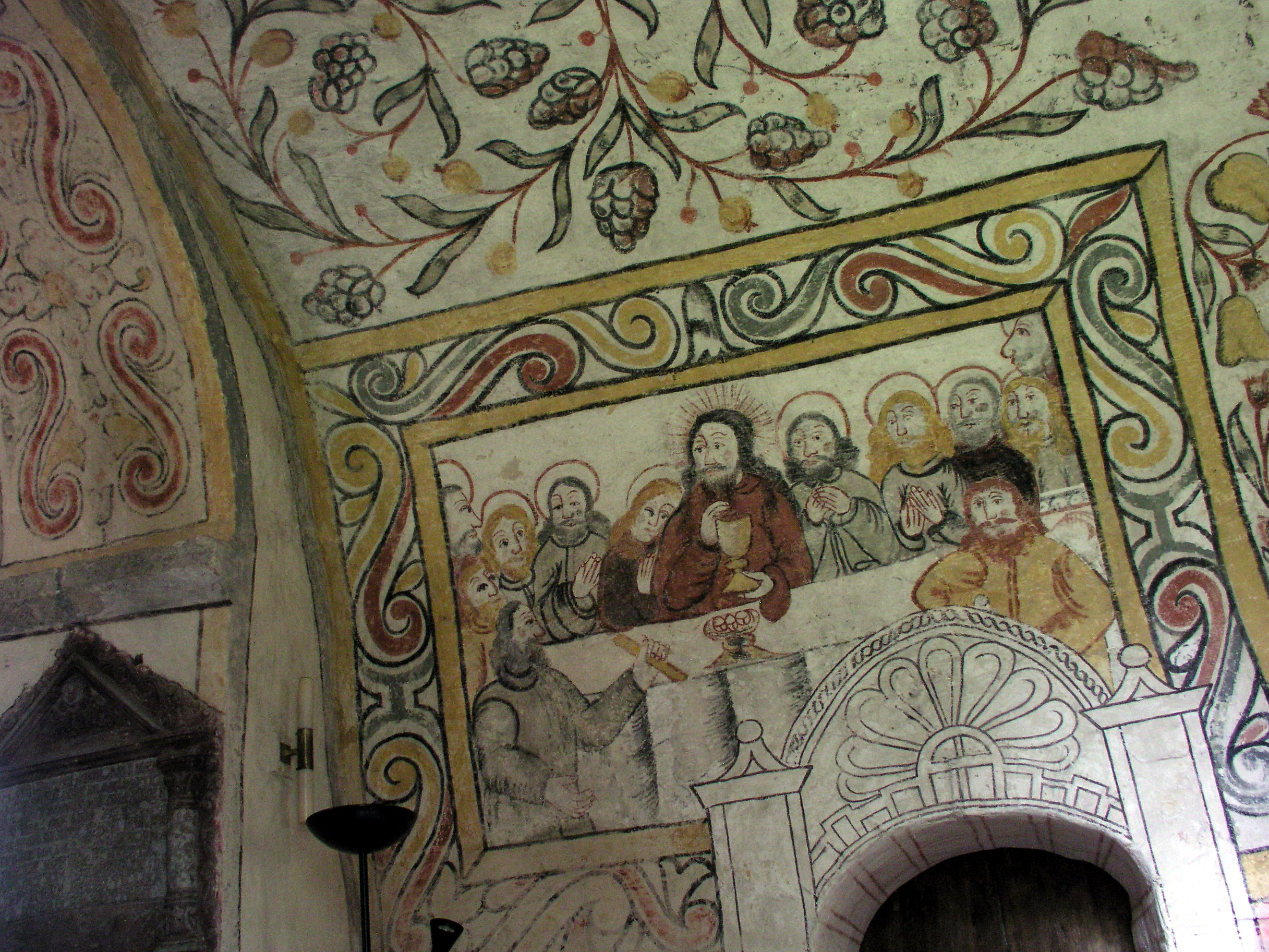 Fresco of the Last Supper, vaults of Väversunda church, Sweden